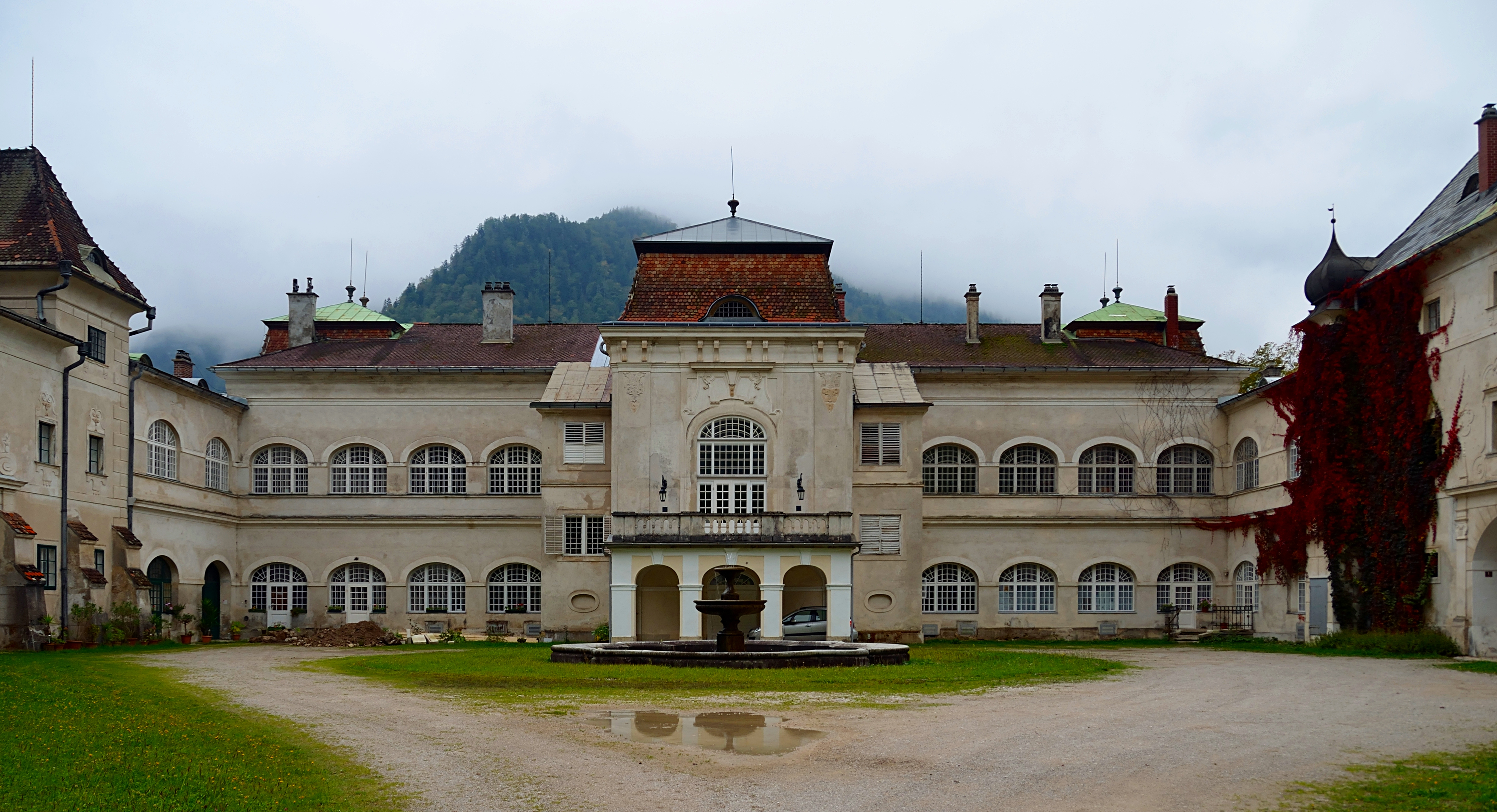 The neobaroque palace Seehof, originally possessed by the Kartause Gaming, is located at the east end of the Lunzer See in Lunz am See, Lower Austria.